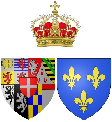 Arms of Christine of France (1606-1663), Duchess of Savoy